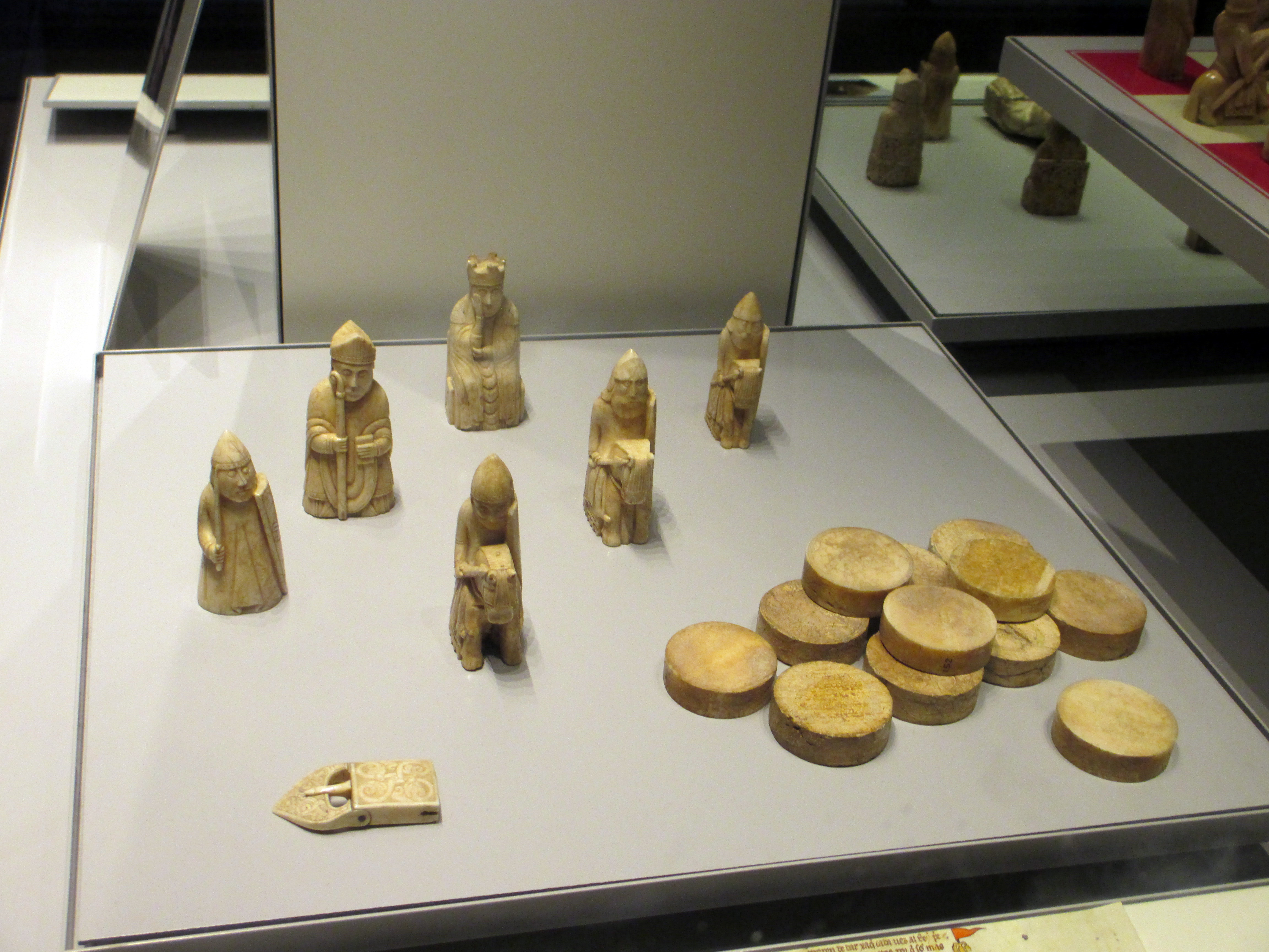 Some of the Lewis Chessmen, along with tablemen and ivory belt buckle also found in the Lewis Hoard. British Museum.